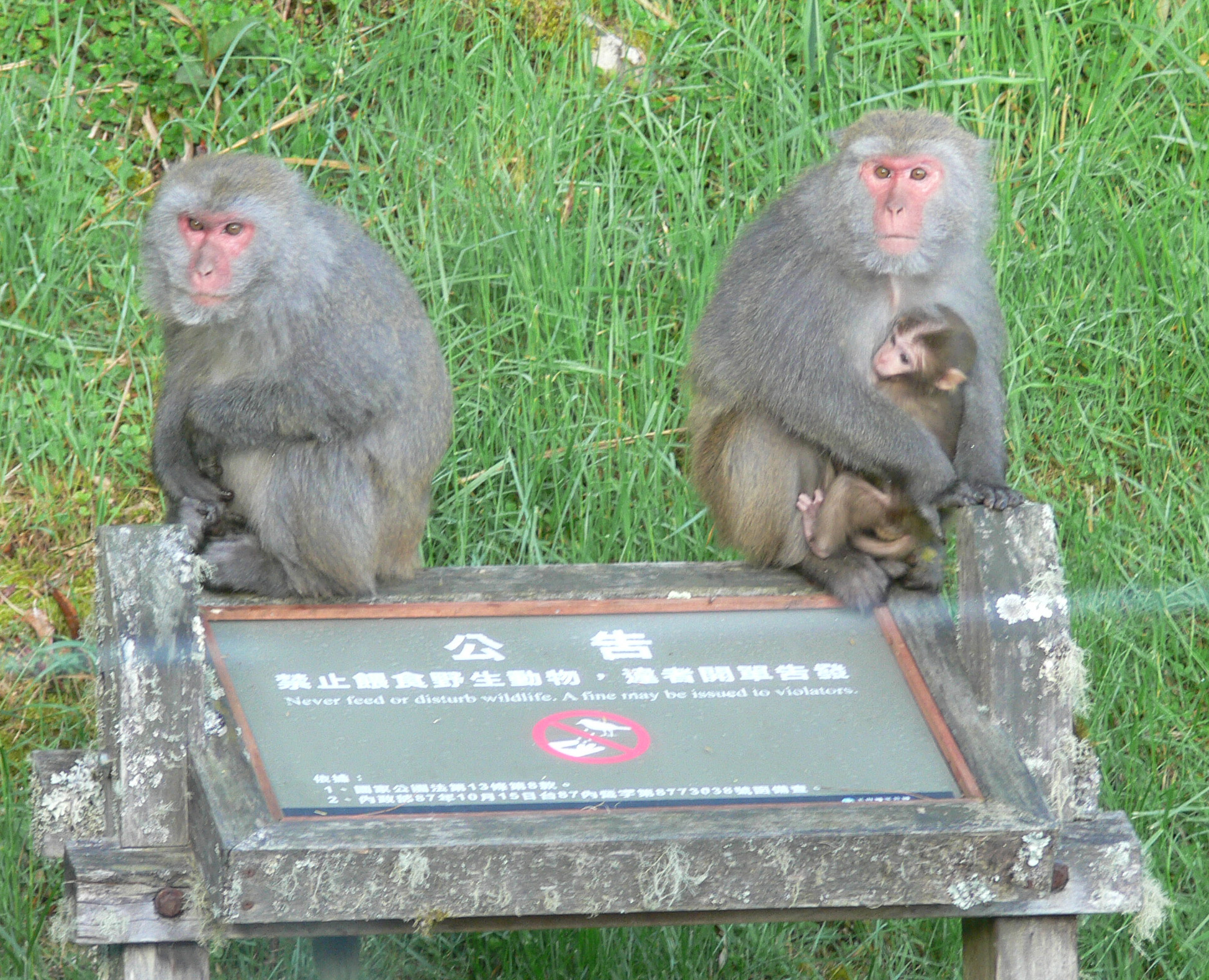 Formosan Rock Monkeys in the Alishan area